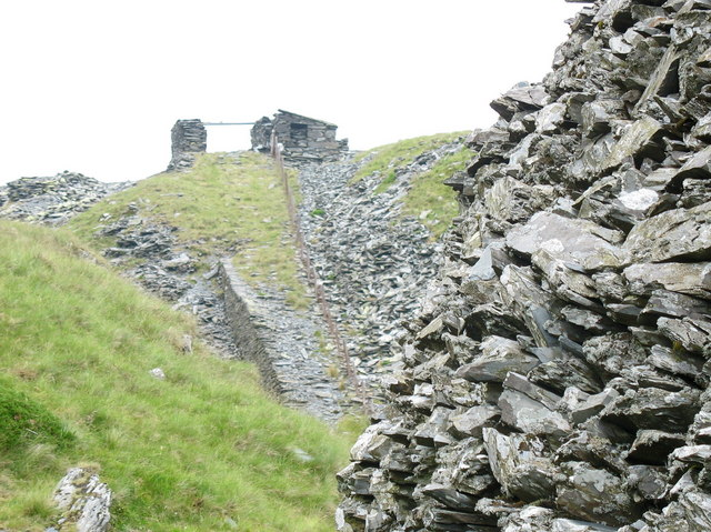 Incline and Drum House at Bwlch Cwmllan Quarry. This incline allowed the transportation of rock from the new upper pit, started in the 1870s, to the mill and dressing sheds. The drum house is built of country rock.